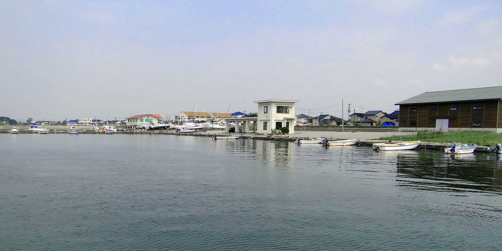 Ishida Fishing Port